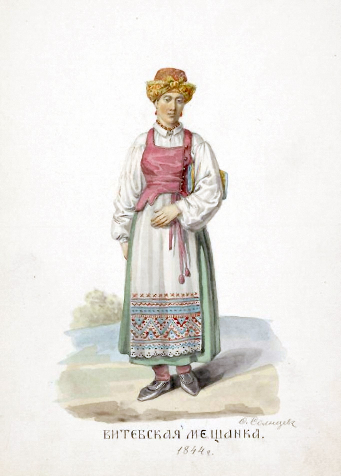 National costumes of Belarus